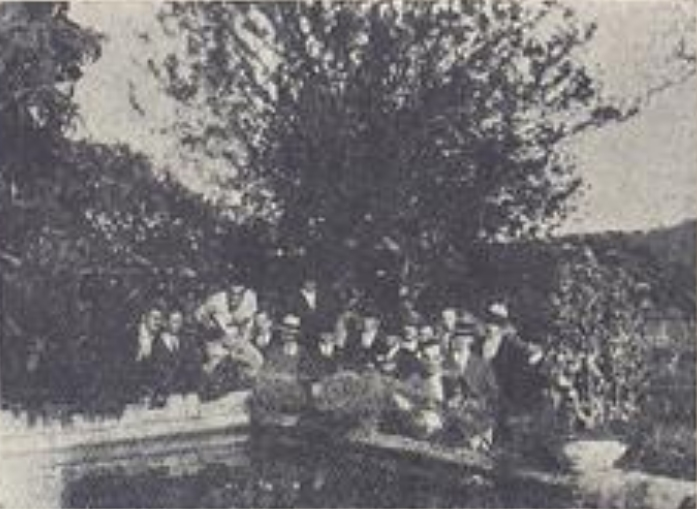 Photograph of the Monte do Paço (Paço hill), near the town of Ferreira do Alentejo, in Portugal. This image was taken from the book Album Alentejano: Distrito de Beja, published in 1931, and scanned by Biblioteca Digital do Alentejo.